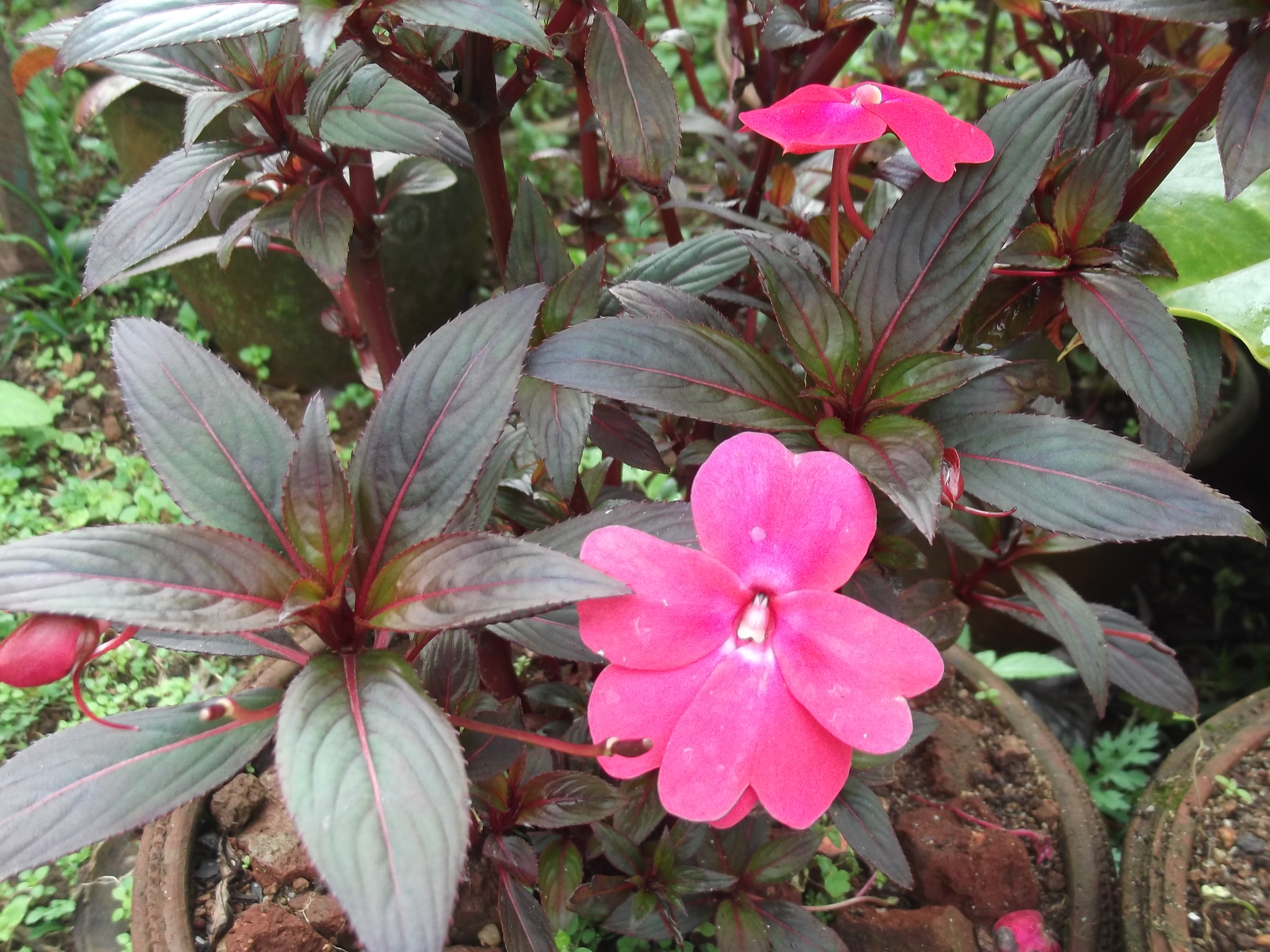 Purple stem,flowers scarlet-red with white eye.